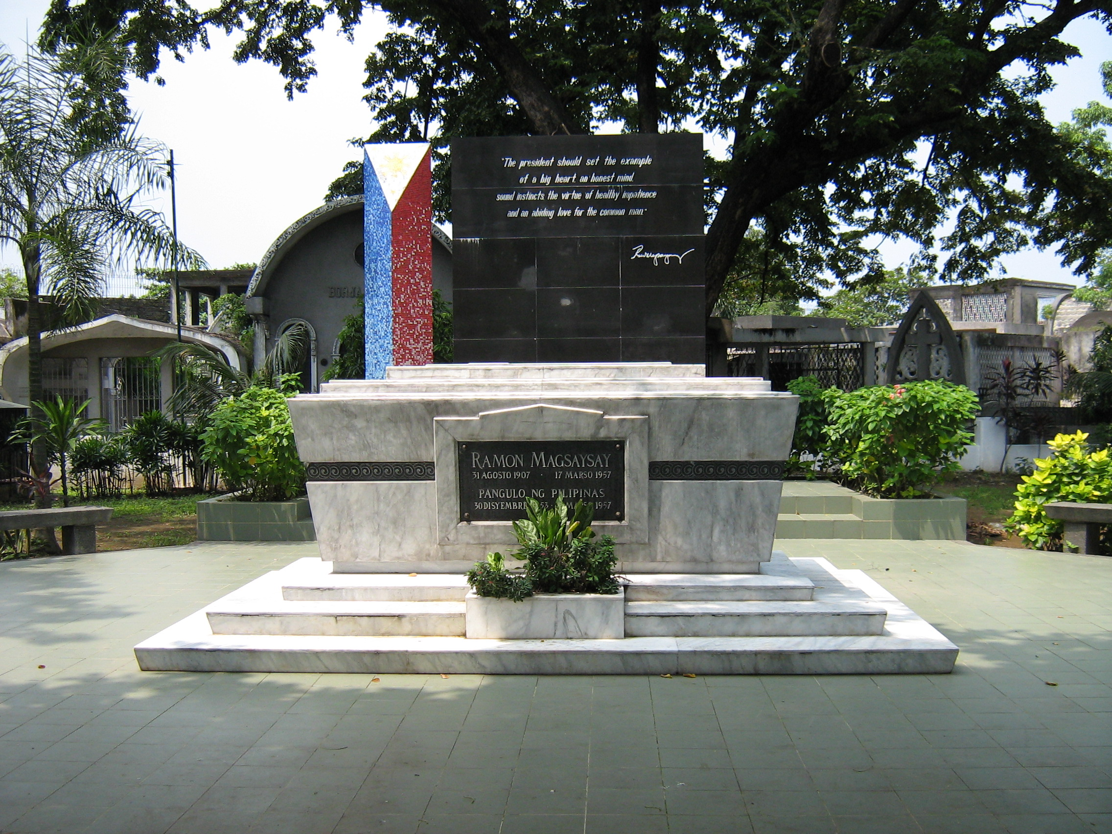 Gravesite of former Philippine President Ramon Magsaysay at the Manila North Cemetery